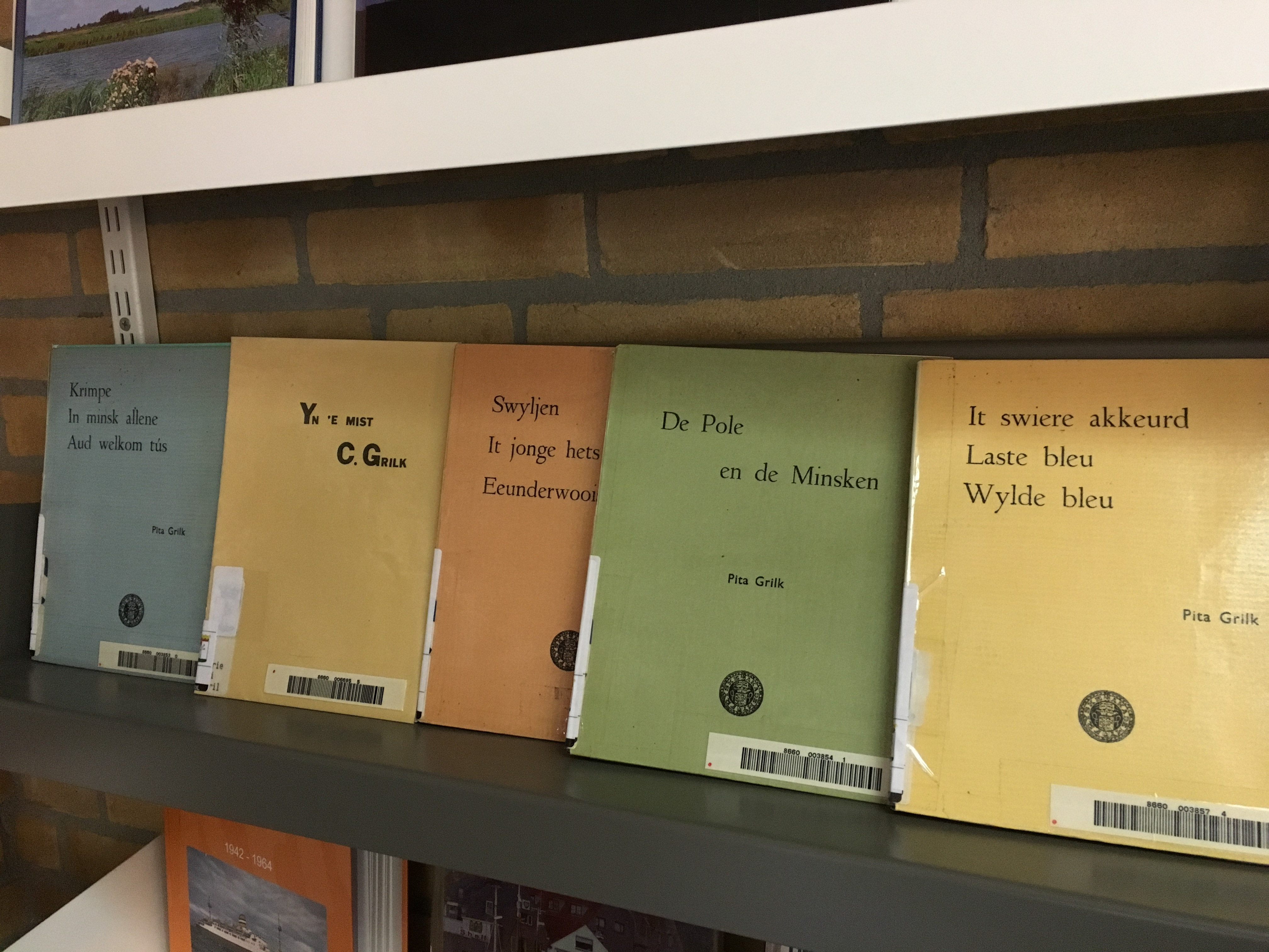 Books of Pita Grilk in Skiermûntseagersk